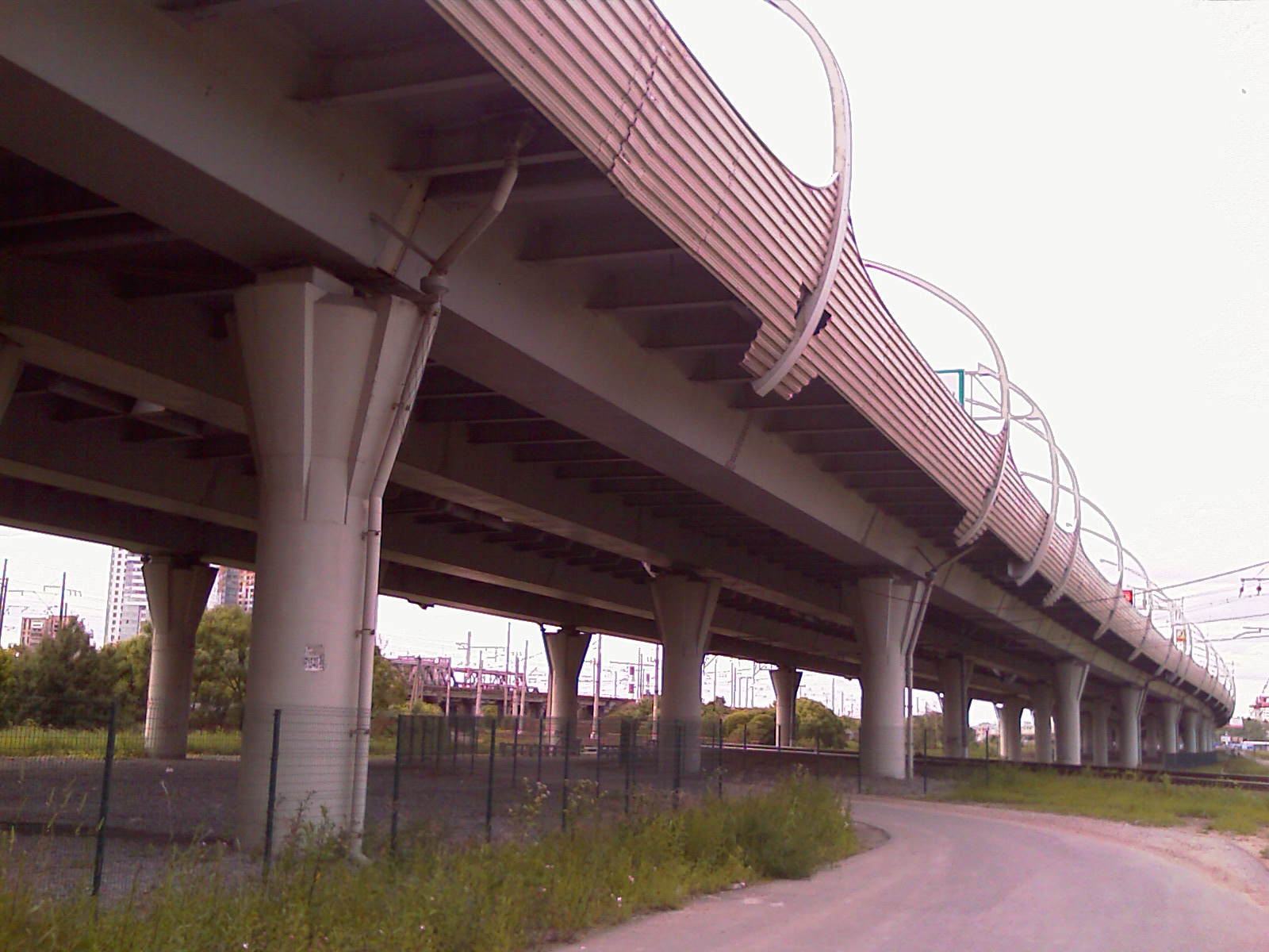 St. Petersburg, Western Rapid Diameter